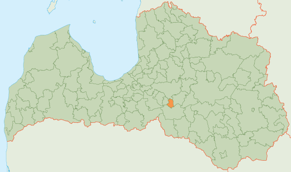 Aizkraukles_novads